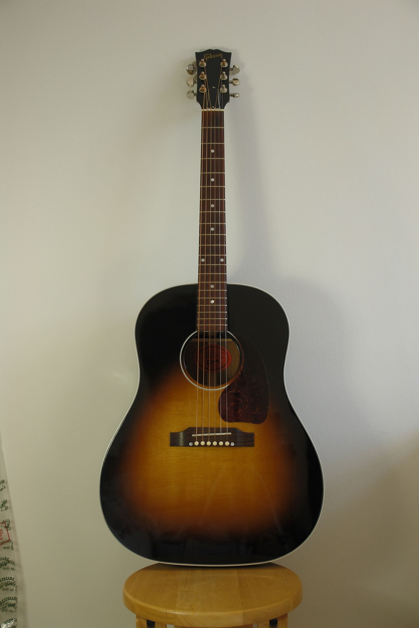 Gibson J-45 (by Jim Hutcheson)